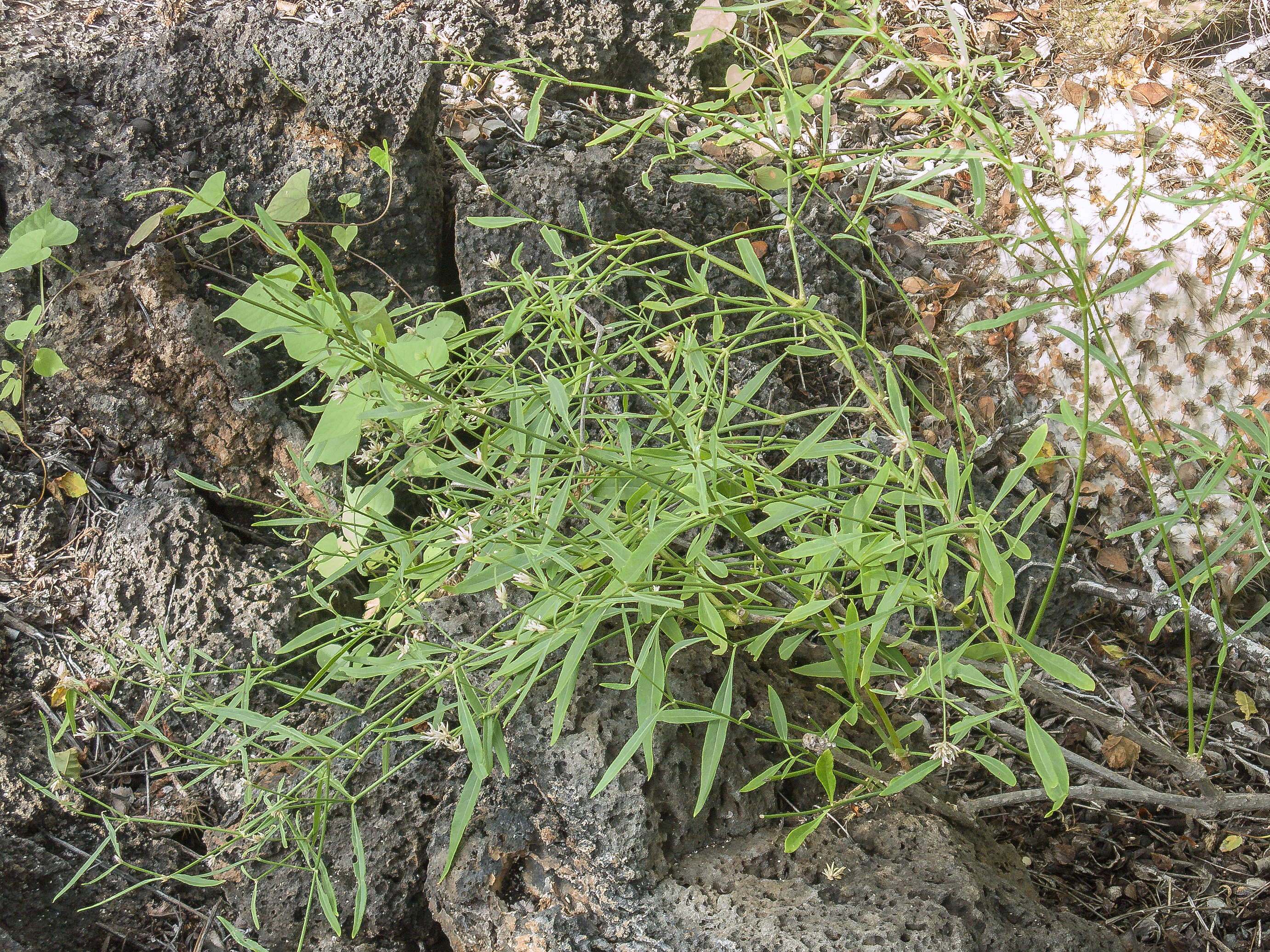 Alternanthera echinocephala in habitat just inland from a beach, Santa Cruz Island, Galapágos